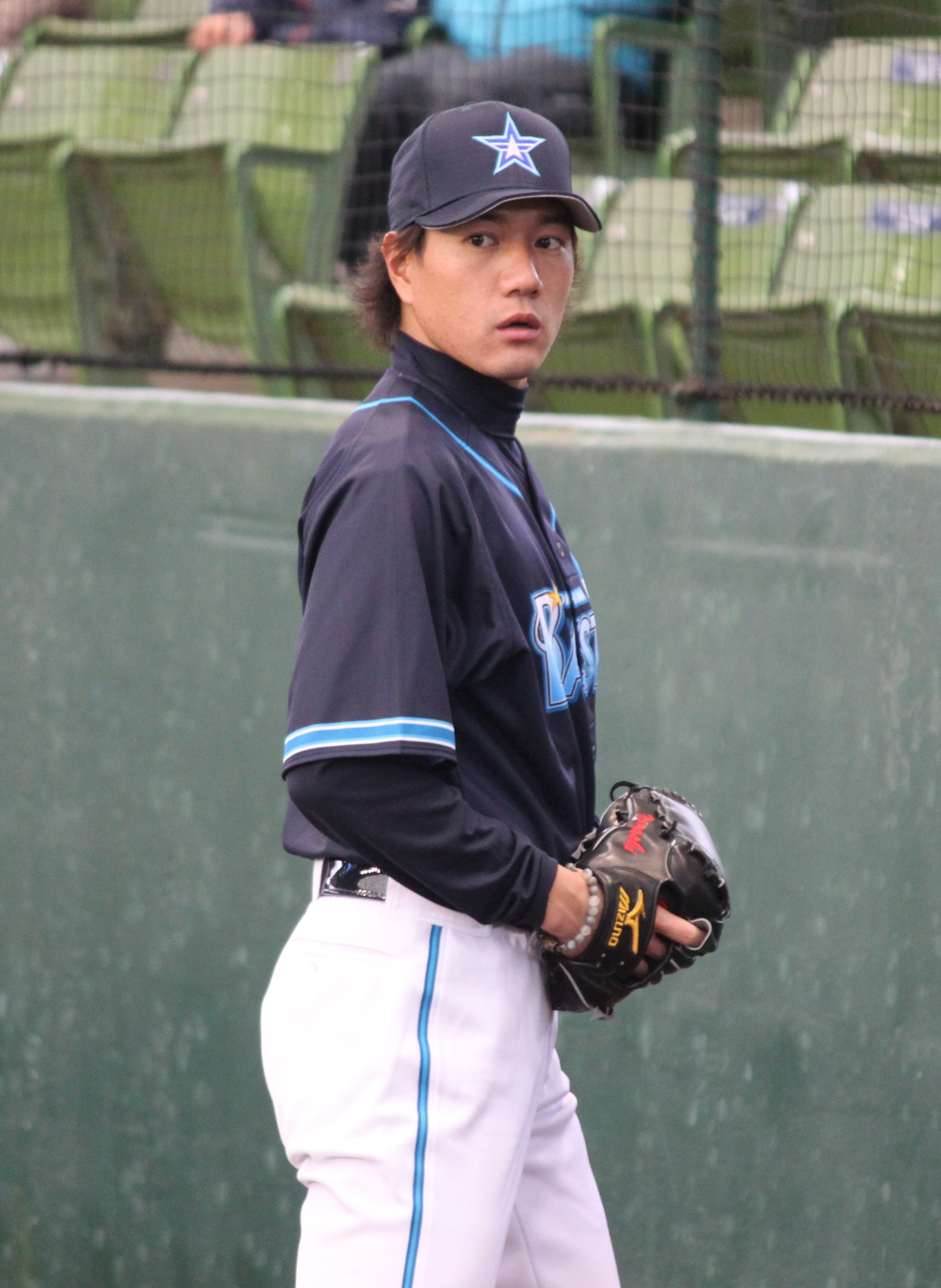 Masanori Hayashi, pitcher of the Yokohama DeNA BayStars, at Seibu Dome.